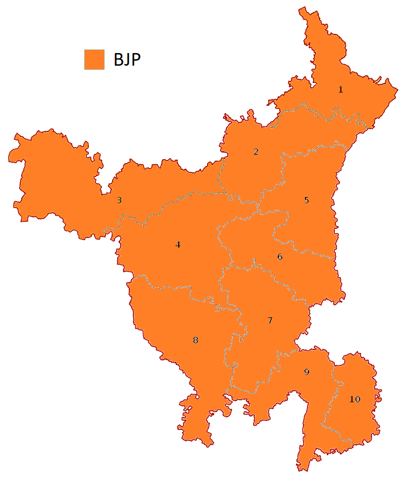 Seat Sharing of NDA in Haryana Colour Coded